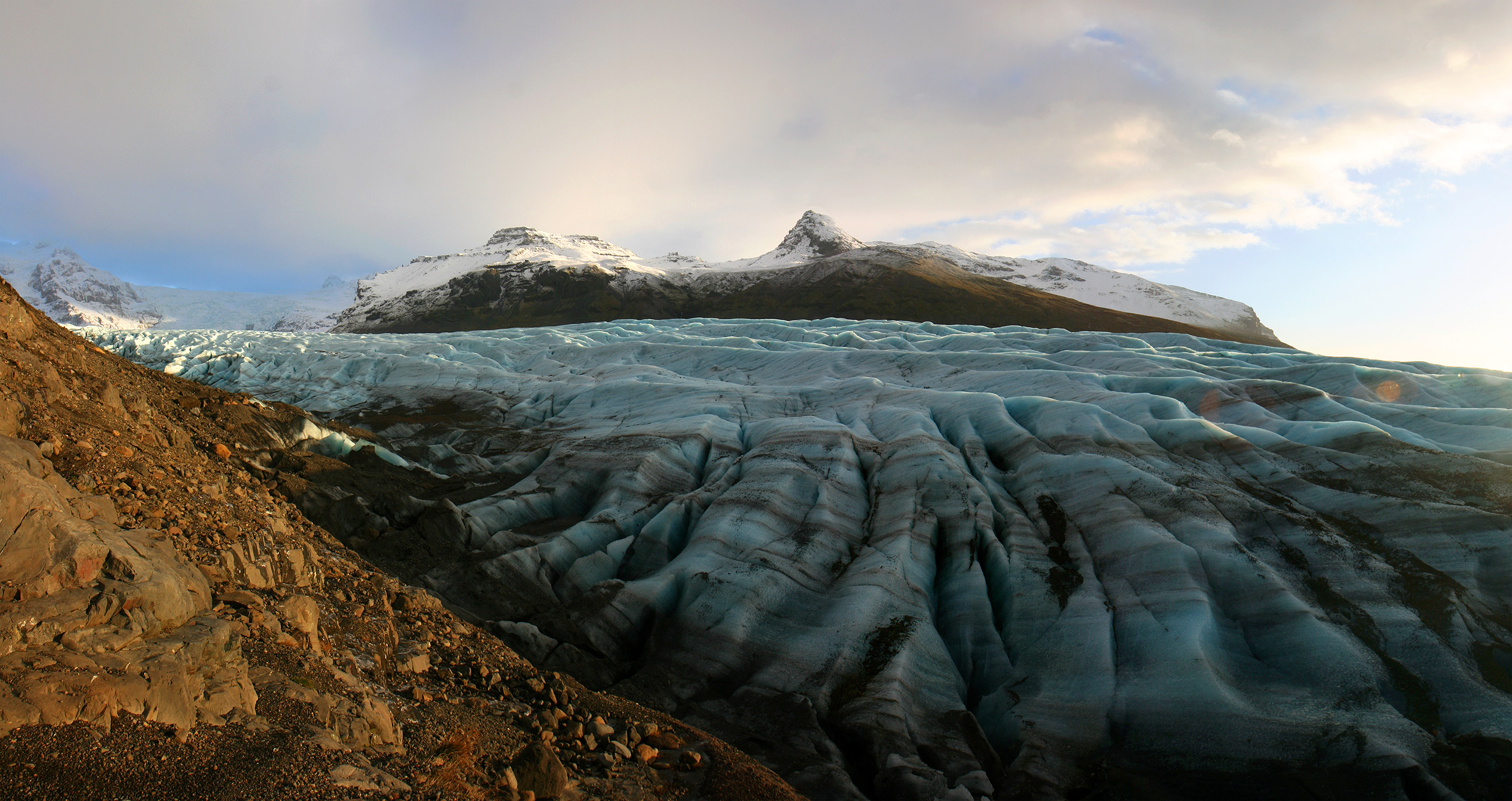 Svínafellsjökull, November 24 14:20 Iceland, November 2007 Photo by me user:debivort (or friend, with permission given to freely license photo).